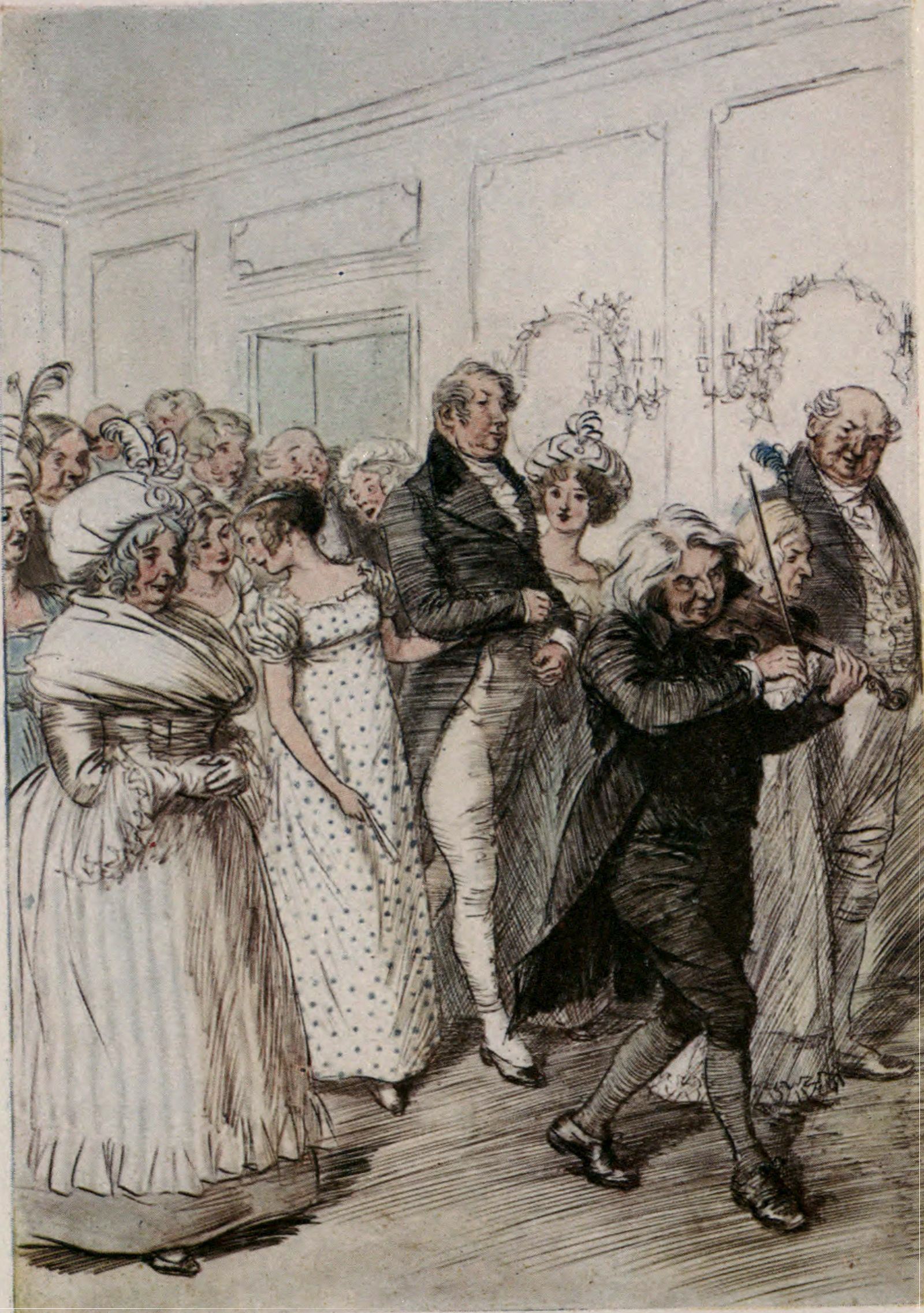 Illustration from the book Silas Marner, written by George Eliot, illustrated by Hugh Thomson